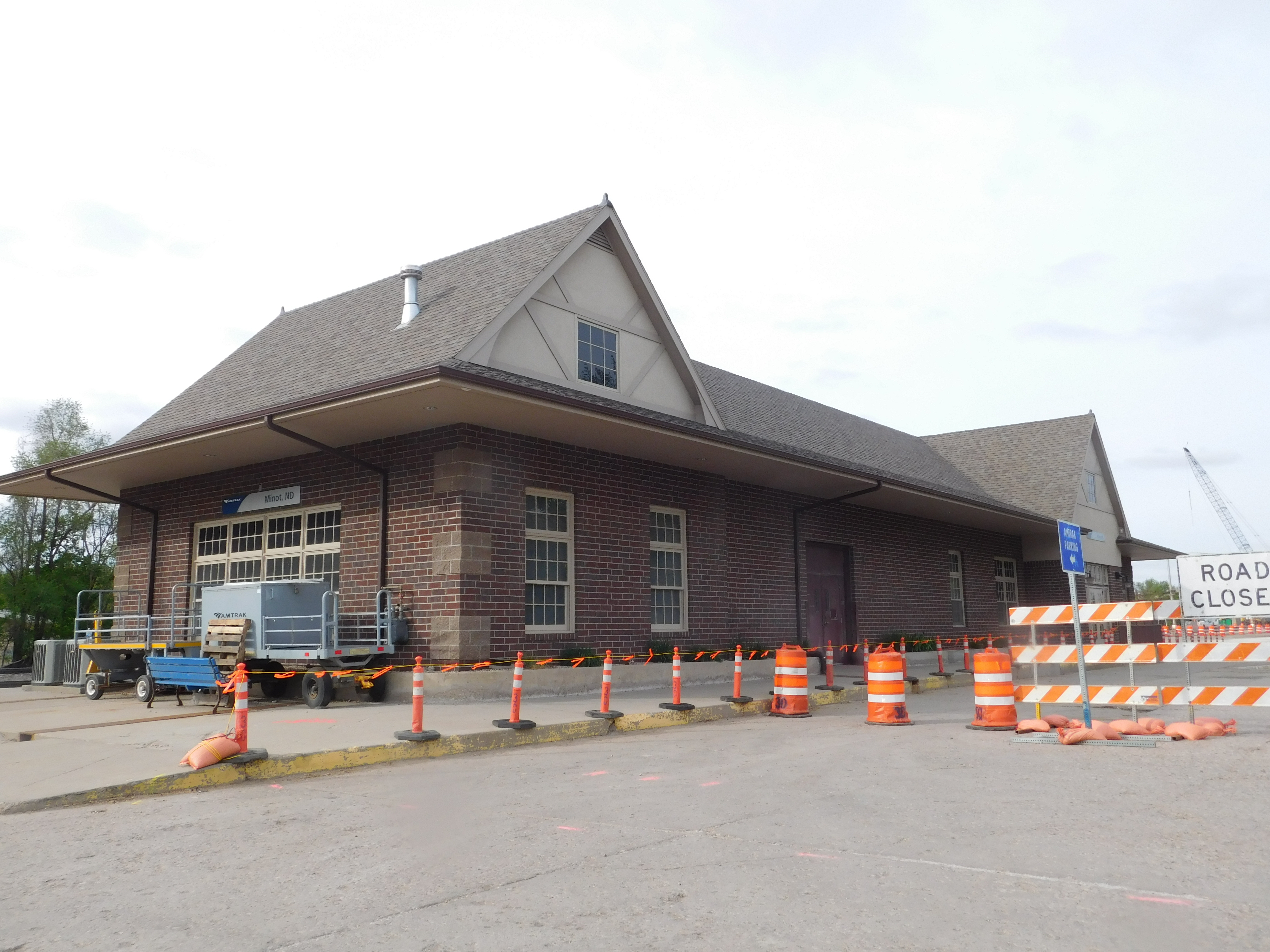 Minot, North Dakota